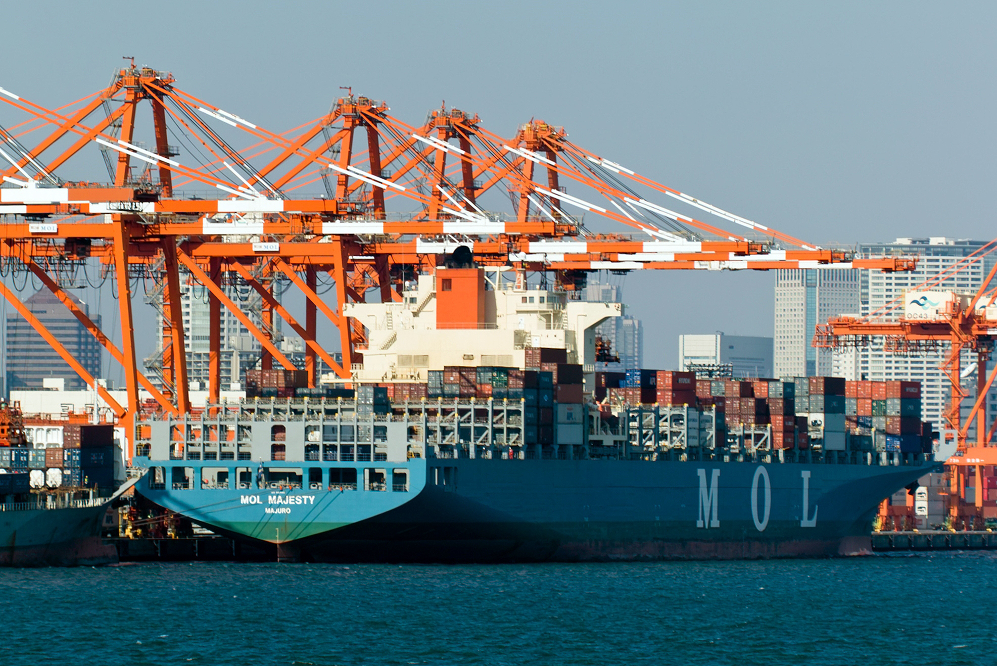 Container ship MOL Majesty, Port of Tokyo